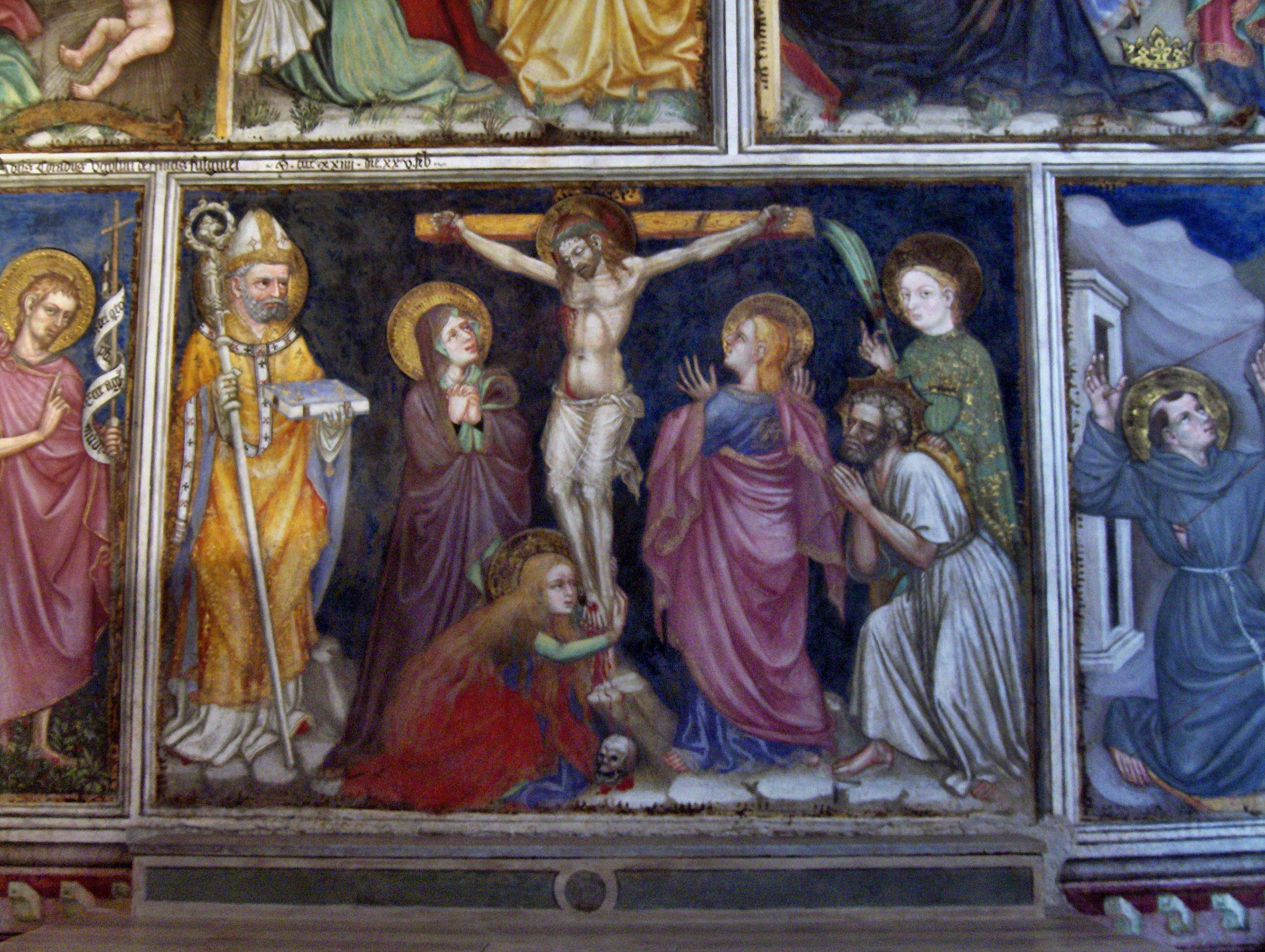 "Crucifixion" (showing among others the archbishop Jacobus da Varagine with his book, the Golden Legend, in his hand), fresco by Ottaviano Nelli, Chapel of the Trinci Palace, Foligno, Italy